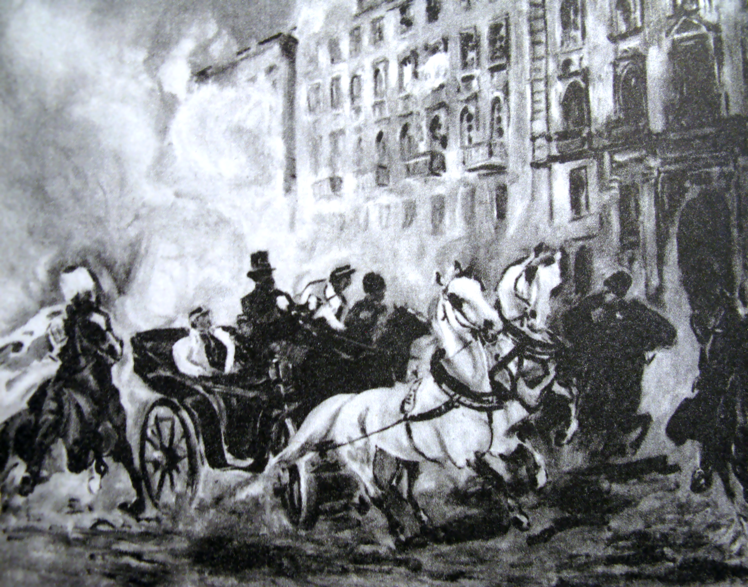 Assasination attempt on Russian general Fyodor Berg in Warsaw 1863